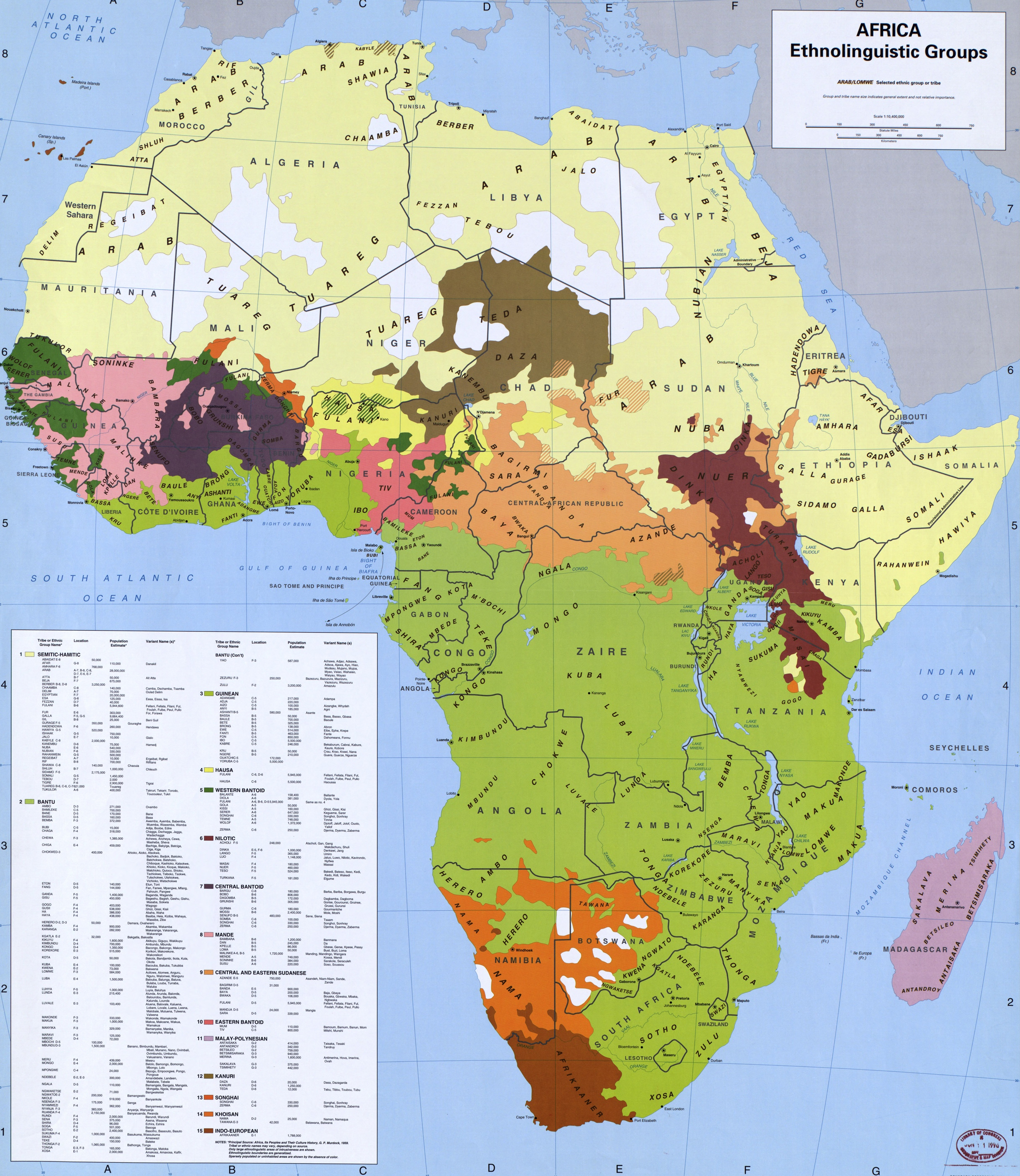 Ethnolinguistic groups of Africa, 1996 publication by the Library of Congress Geography and Map Division. From the map legend: NOTE: Principal source: Africa, its peoples and their cultural history, G.P. Murdock, 1959. Tribal or ethnic names may vary, depending on source Only large ethnolinguistic areas of intrusiveness are shown Ethnolinguistic boundaries are generalized Sparsely populated or uninhabited areas are shown by the absence of color. Afro-Asiatic Hamitic (Berber, Cushitic) + Semitic (Ethiopian, Arabic) Hausa (Chadic) Niger Congo Bantu "Guinean" (Volta-Niger, Kru) "Western Bantoid" (Senegambian, Bak) "Central Bantoid" (Gur) "Eastern Bantoid" (Southern Bantoid) Mande Nilo-Saharan (unity doubtful) Nilotic Central Sudanic+Eastern Sudanic Kanuri Songhai other Khoi-San (unity doubtful; Khoikhoi, San, Sandawe, Hadza) Malayo-Polynesian (Malagasy) Indo-European (Afrikaaner)